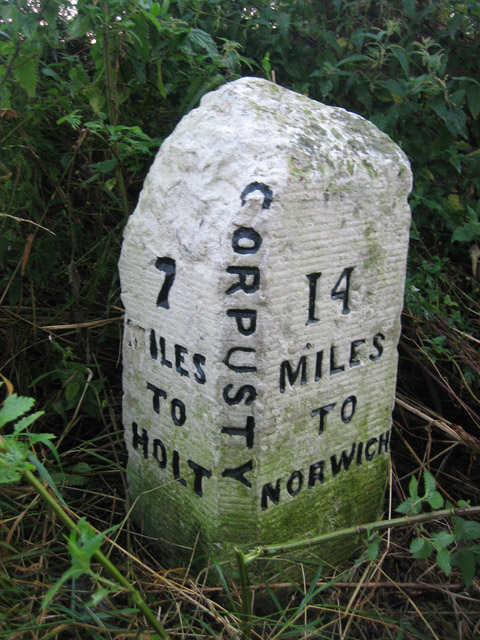 Milestone on the B1149 road